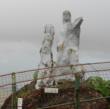 Dona Paula Closeup picture